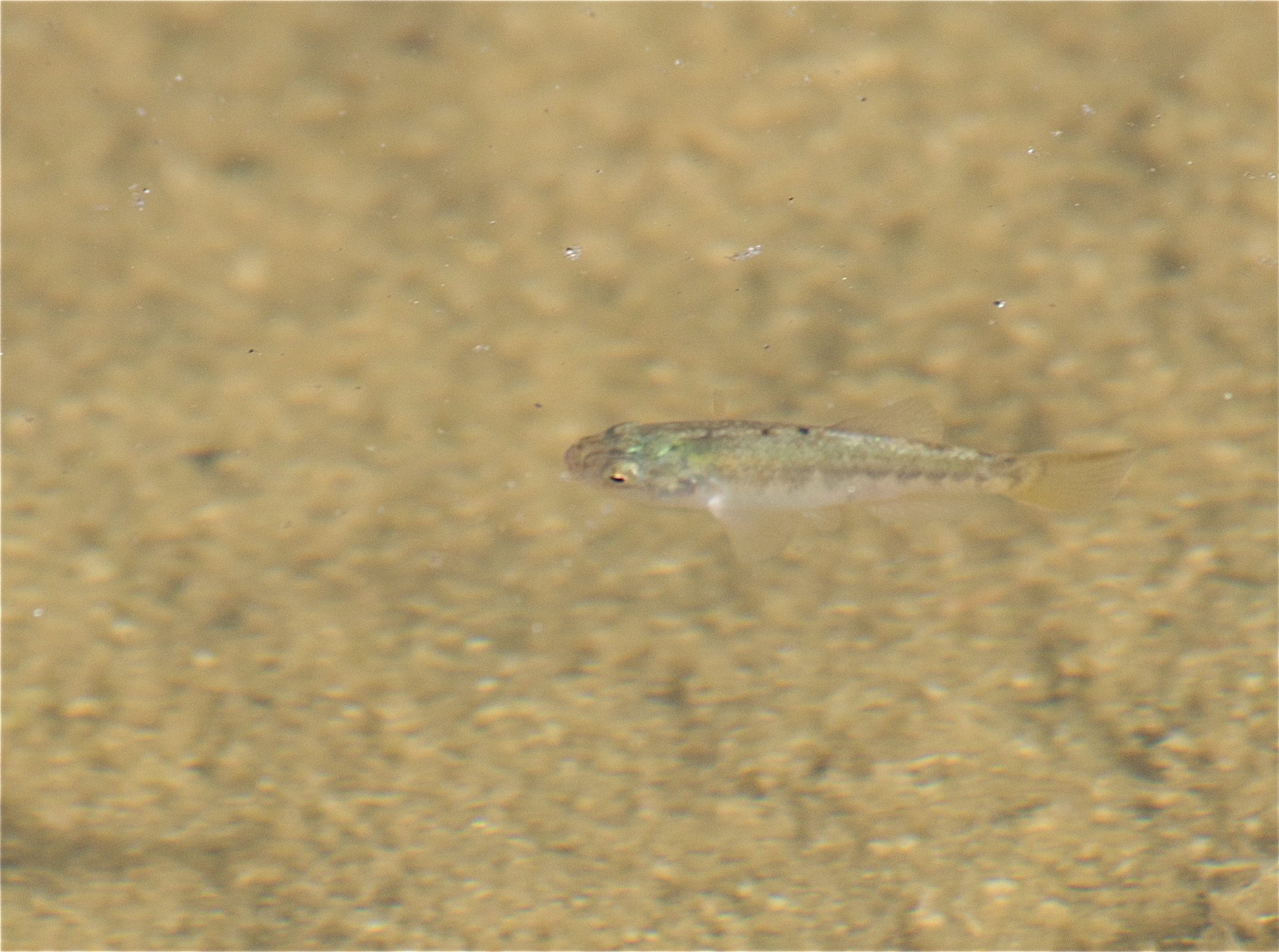 Cyprinodon macularius